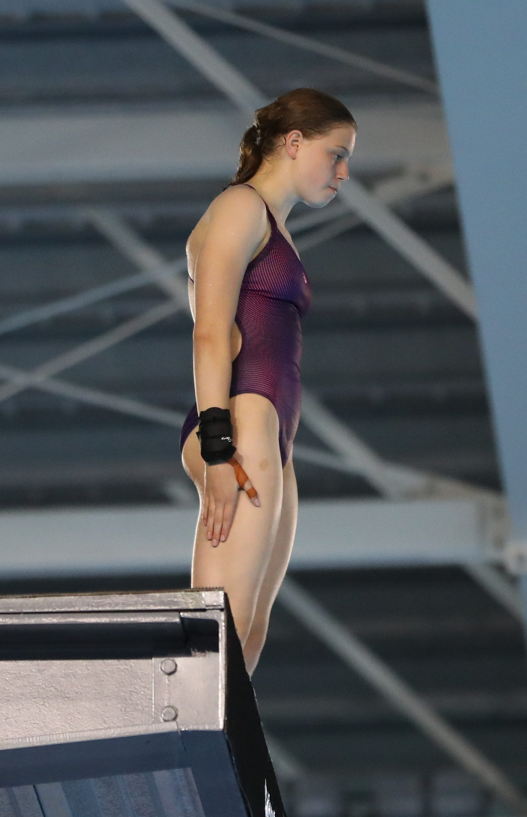 Diving, Girls 10m platform: Jump 3